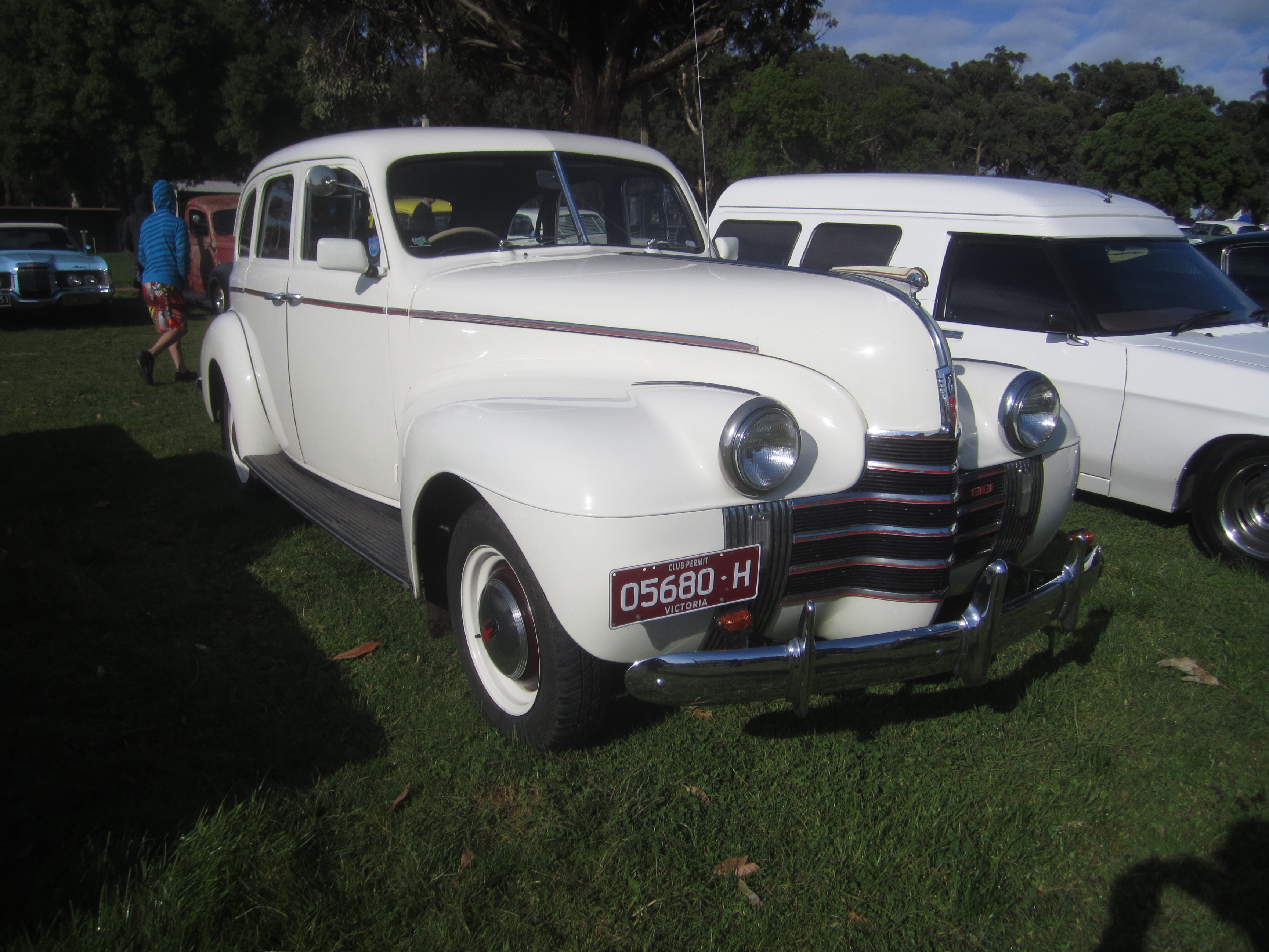 Available in Standard or Deluxe. Engine; 238 cu in 6 cyl